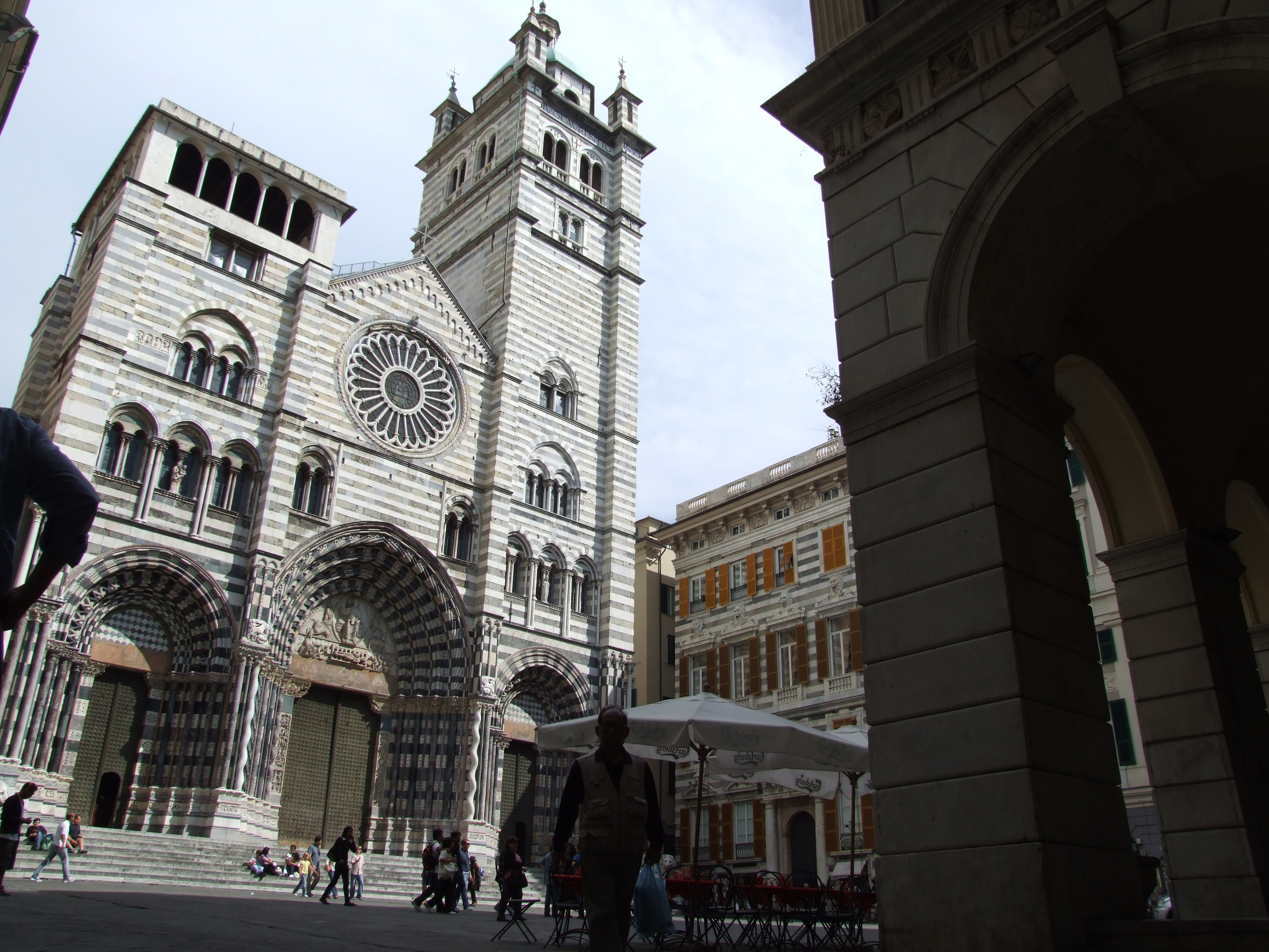 San Lorenzo Cathedral in Genoa